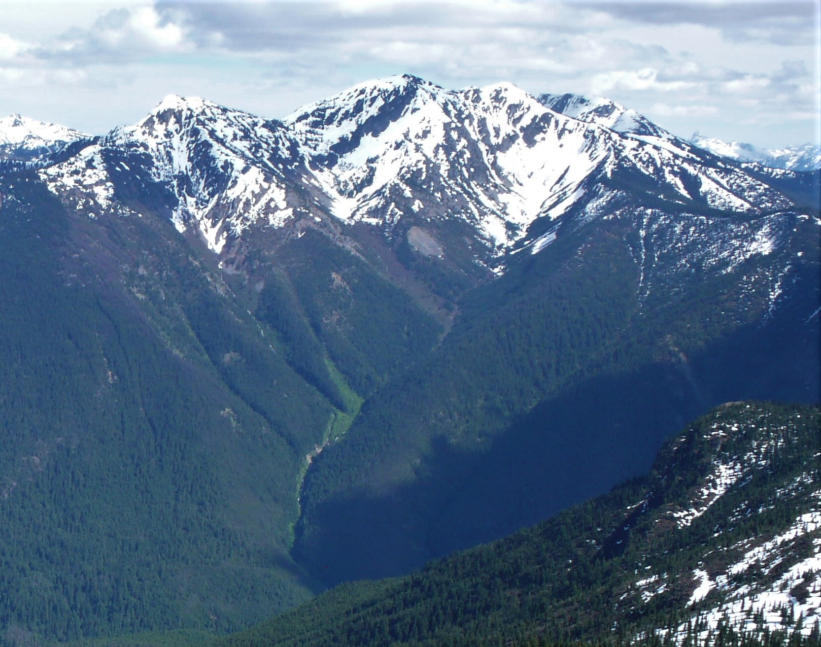 Spratt Mountain from NW at Desolation Peak